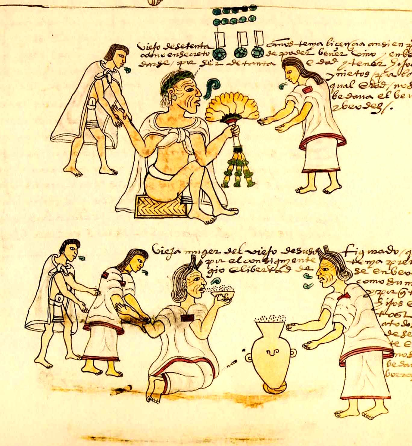 An illustration from Codex Mendoza depicting elderly Aztecs smoking and drinking pulque.